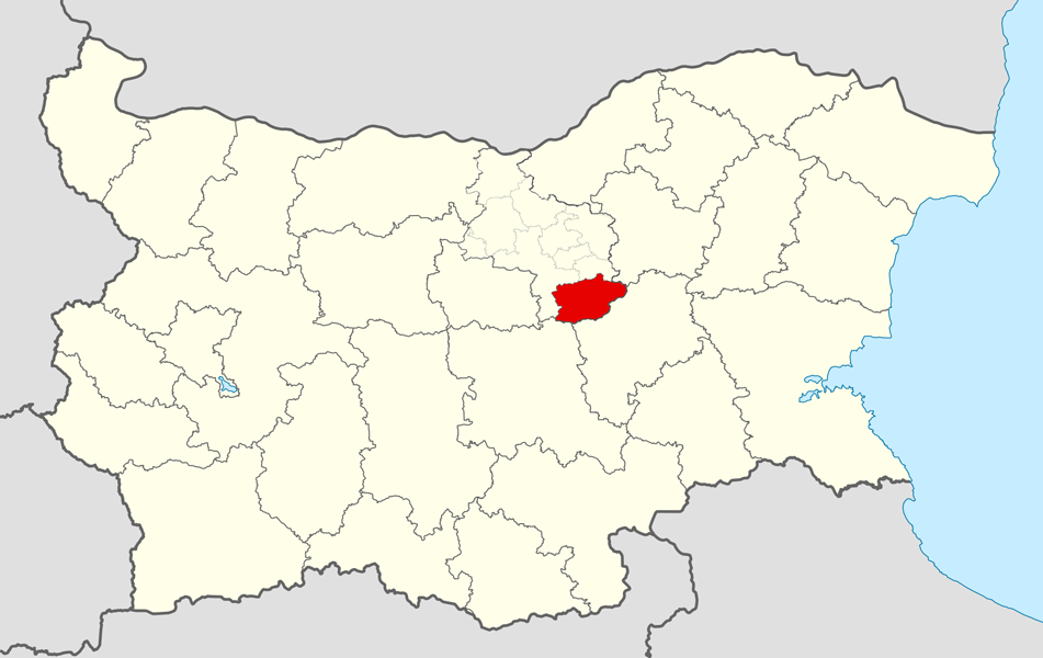 Location map of Elena Municipality within Bulgaria and Veliko Tarnovo Province. Equirectangular projection, N/S stretching 130 %. Geographic limits of the map: N: 44.4° N S: 41.1° N W: 22.1° E E: 28.9° E